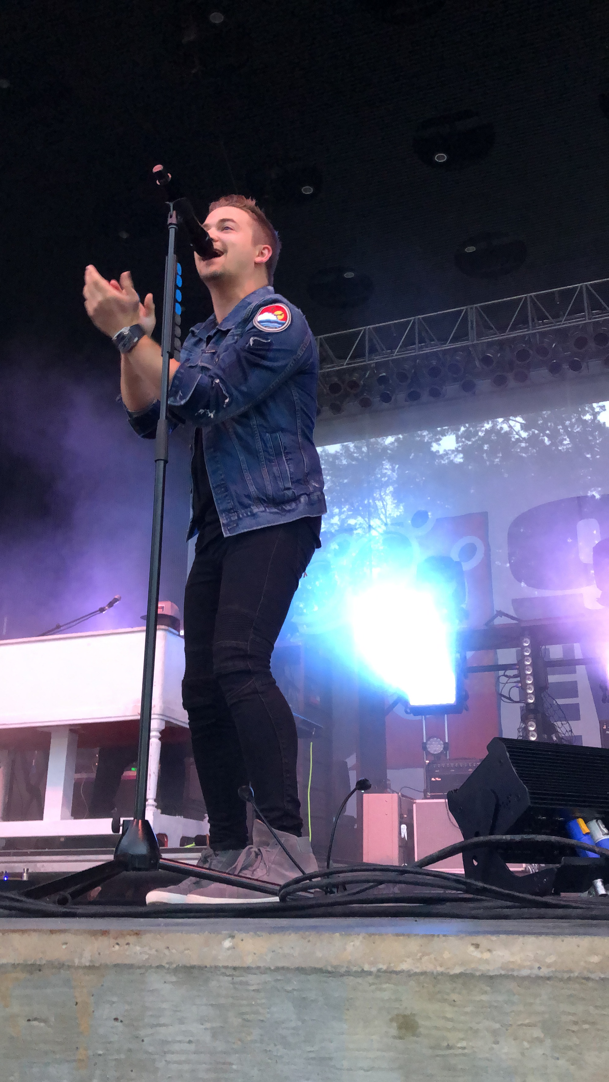 Hayes performing in Memphis in 2019